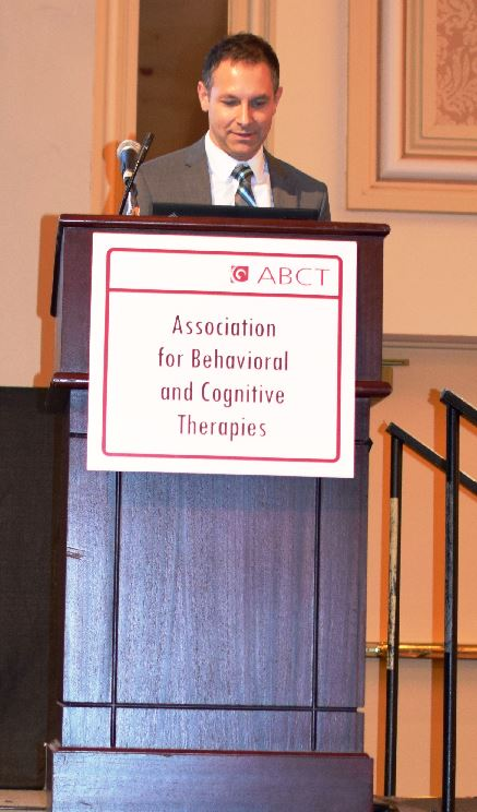 Abramowitz giving presidential address at ABCT